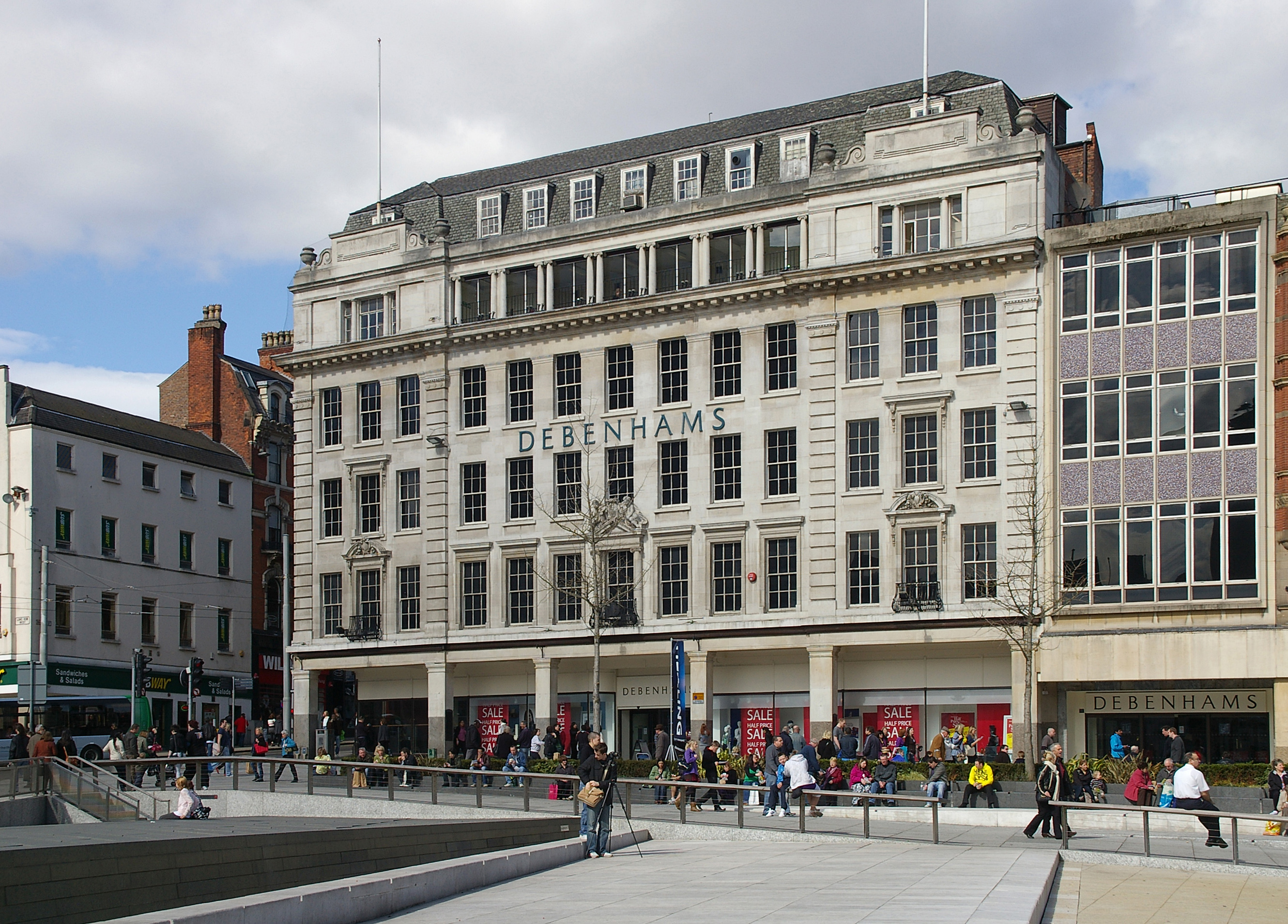 Debenhams in Market Square, Nottingham.